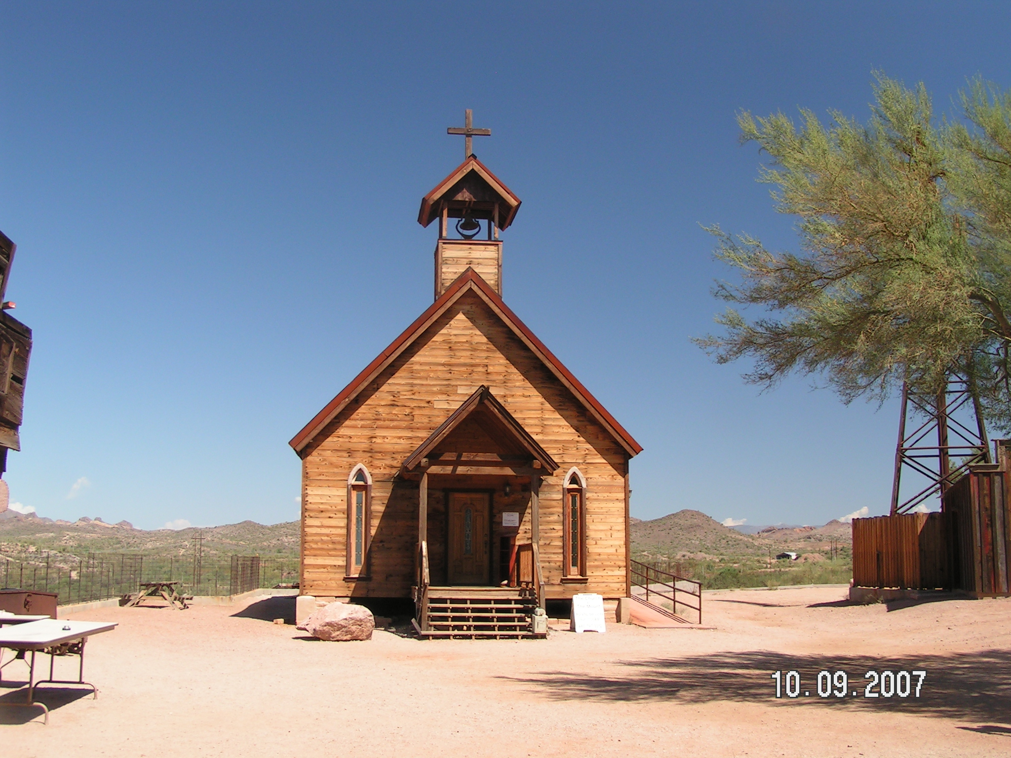 Ghost Town,AZ